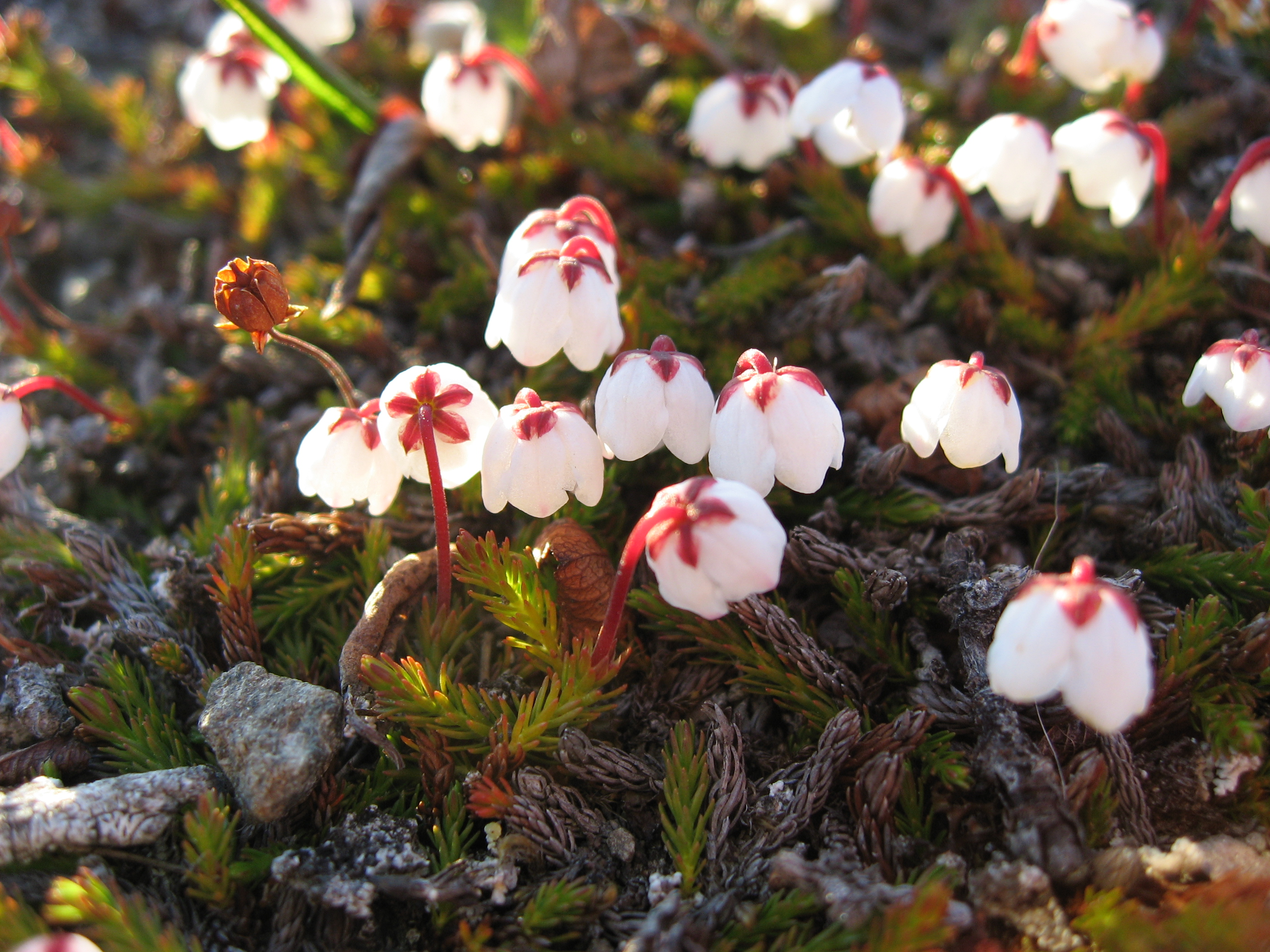 Mossplant (Harrimanella hypnoides) photographed near Upernavik Kujalleq, Greenland.